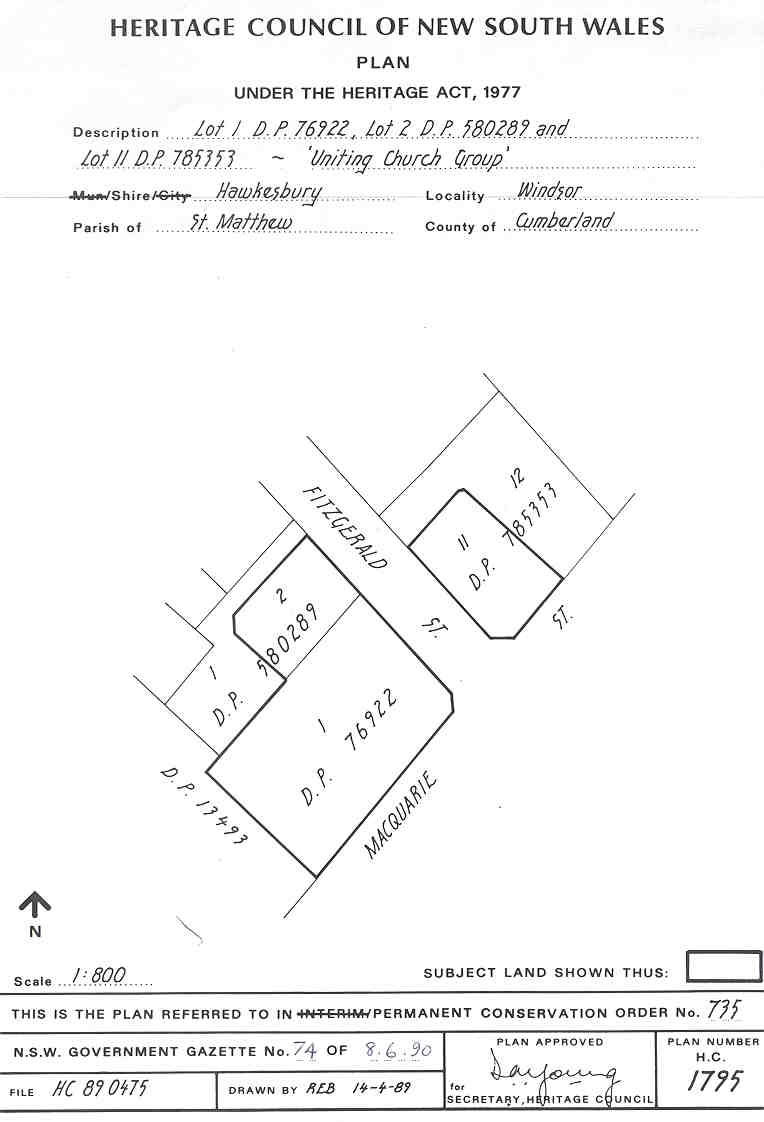 Windsor Methodist Parsonage: PCO Plan Number 735